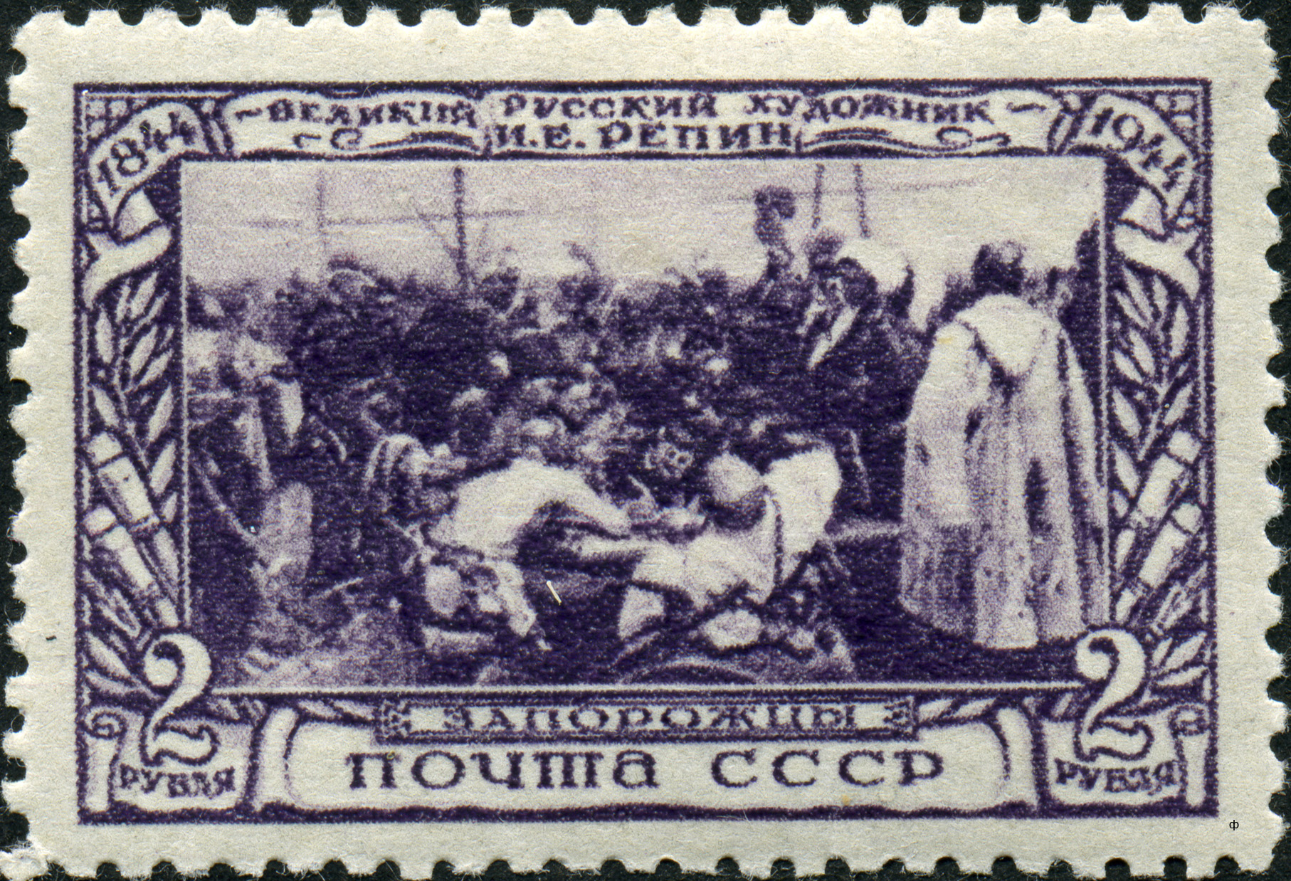 USSR Postage stamp (1944) showing Ilya Repin's Reply of the Zaporozhian Cossacks to Sultan Mehmed IV of the Ottoman Empire